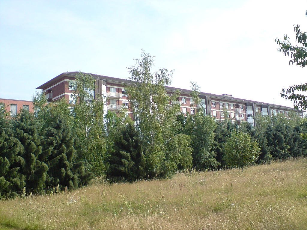 Side-view of Herz-Jesu-Hospital in Münster-Hiltrup.